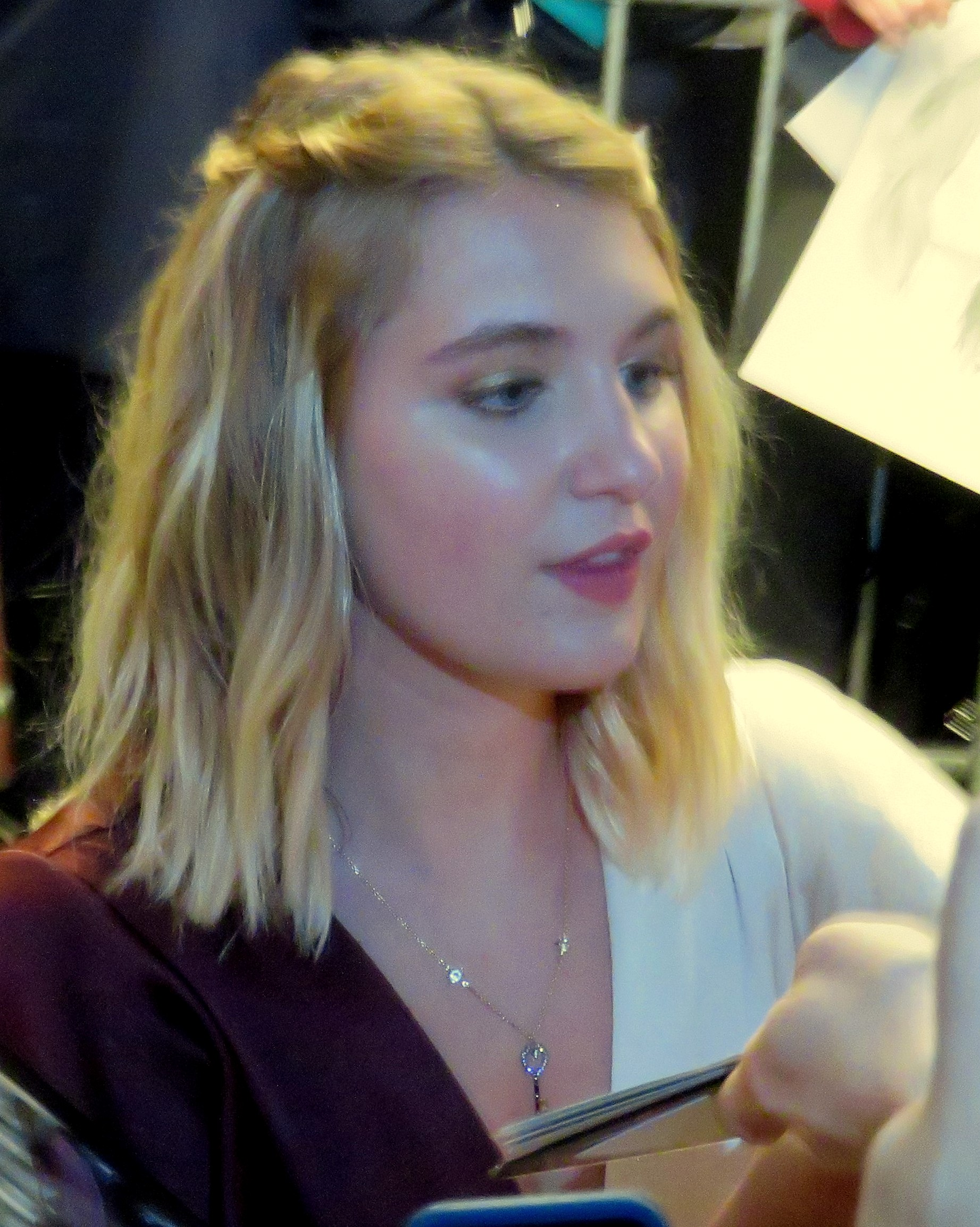 Sophie Nélisse at the premiere of The Rest of Us (2019)